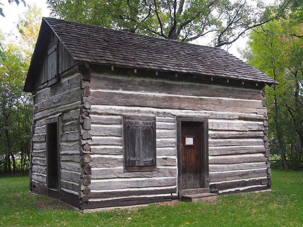 John Bergquist Pioneer Cabin, in a park at the end of 7th St. N, Moorhead, Minnesota, USA. Viewed from the southwest.